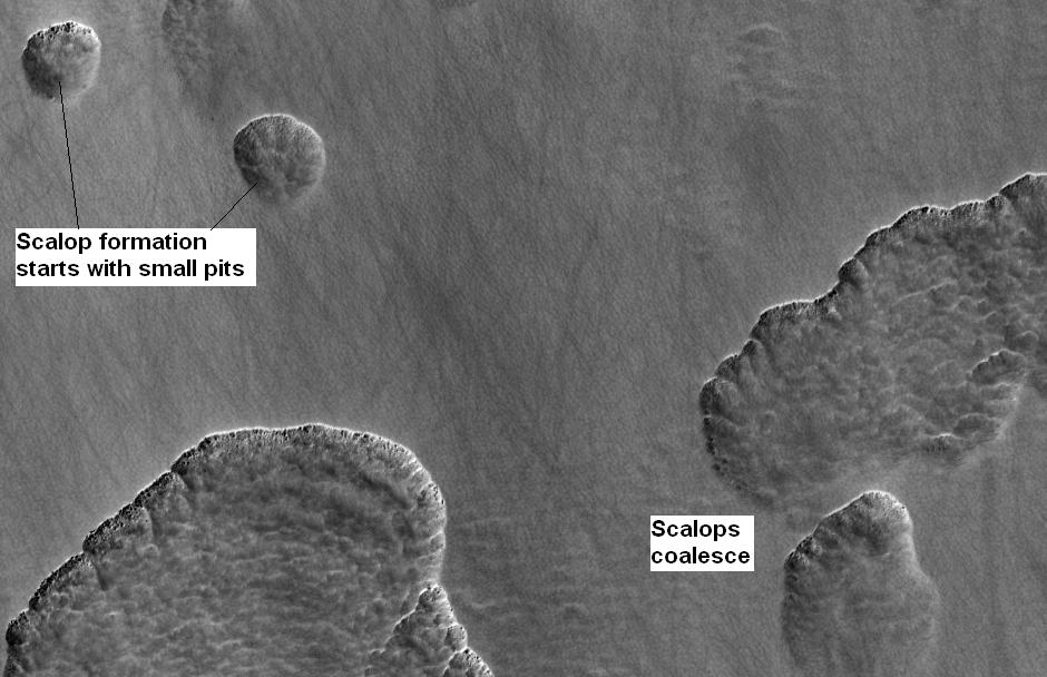 Stages in scalop formation on Mars, as seen by hirise. Location is 57.9 S and 65.5 E.